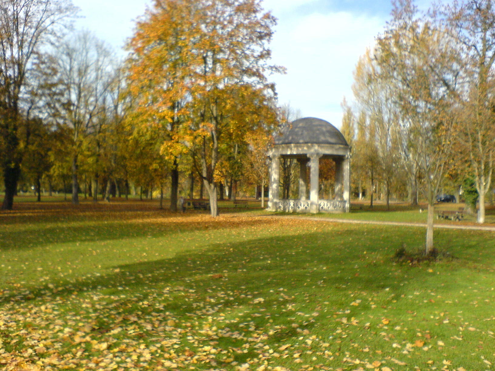 Pavilion in the park next to the "Wittstraße"